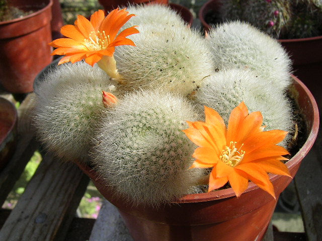 Rebutia fiebrigii (Rebutia spinosissima) in flower.